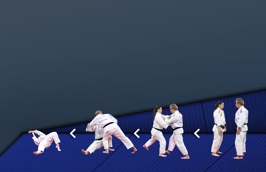 judo